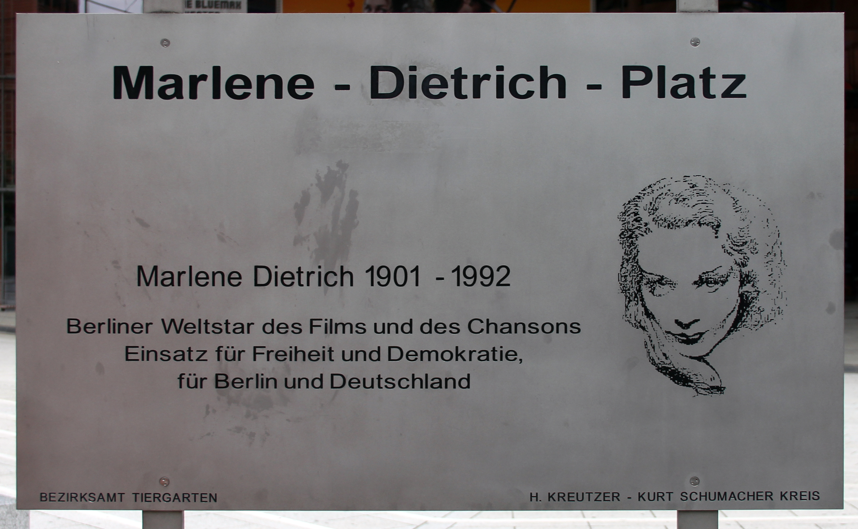 Memorial plaque, Marlene Dietrich, Marlene-Dietrich-Platz, Berlin-Tiergarten, Germany